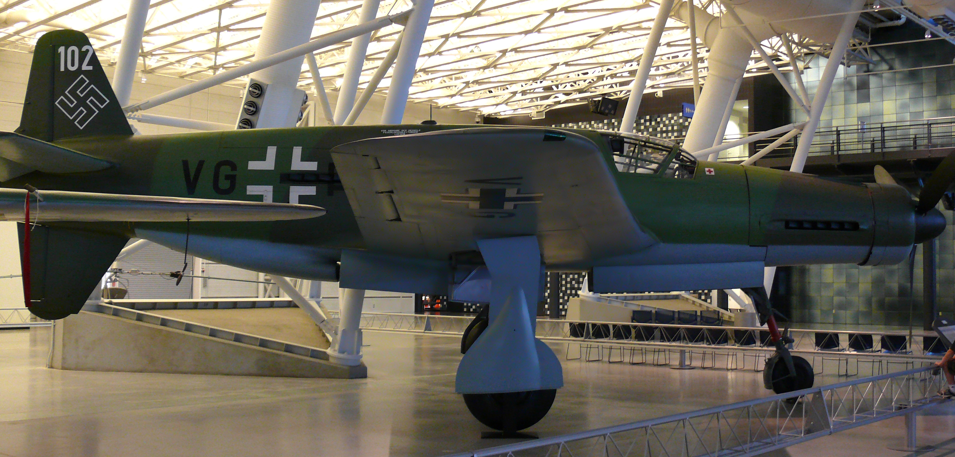 Dornier Do 335 Pfeil (Arrow) in the National Air and Space Museum, Steven F. Udvar-Hazy Center, Washington DC. The Dornier Do 335 Pfeil, unofficially also Ameisenbär ("anteater"), was a World War II heavy fighter built by the Dornier company. The Pfeil's performance was much better than other twin-engine designs due to its unique "push-pull" layout. The Luftwaffe was desperate to get the design into squadron use, but delays in engine deliveries meant only a handful were delivered before the war ended. The Do 335 of the NASM is the only one left. The aircraft was the second preproduction Do 335 A-0, designated A-02, with construction number (Werknummer) 240102, and factory radio code registration, or Stammkennzeichen, of VG+PH. In 1975 the aircraft was restored by Dornier employees, many of whom had worked on the airplane originally.